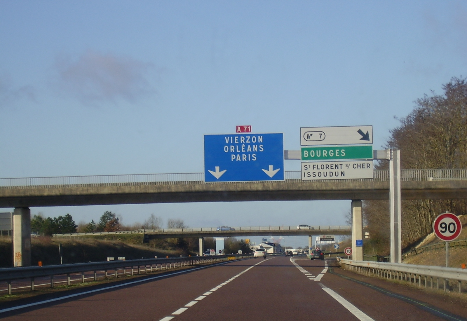 A71 motorway in Bourges, Cher, Centre, France. (exit 7)